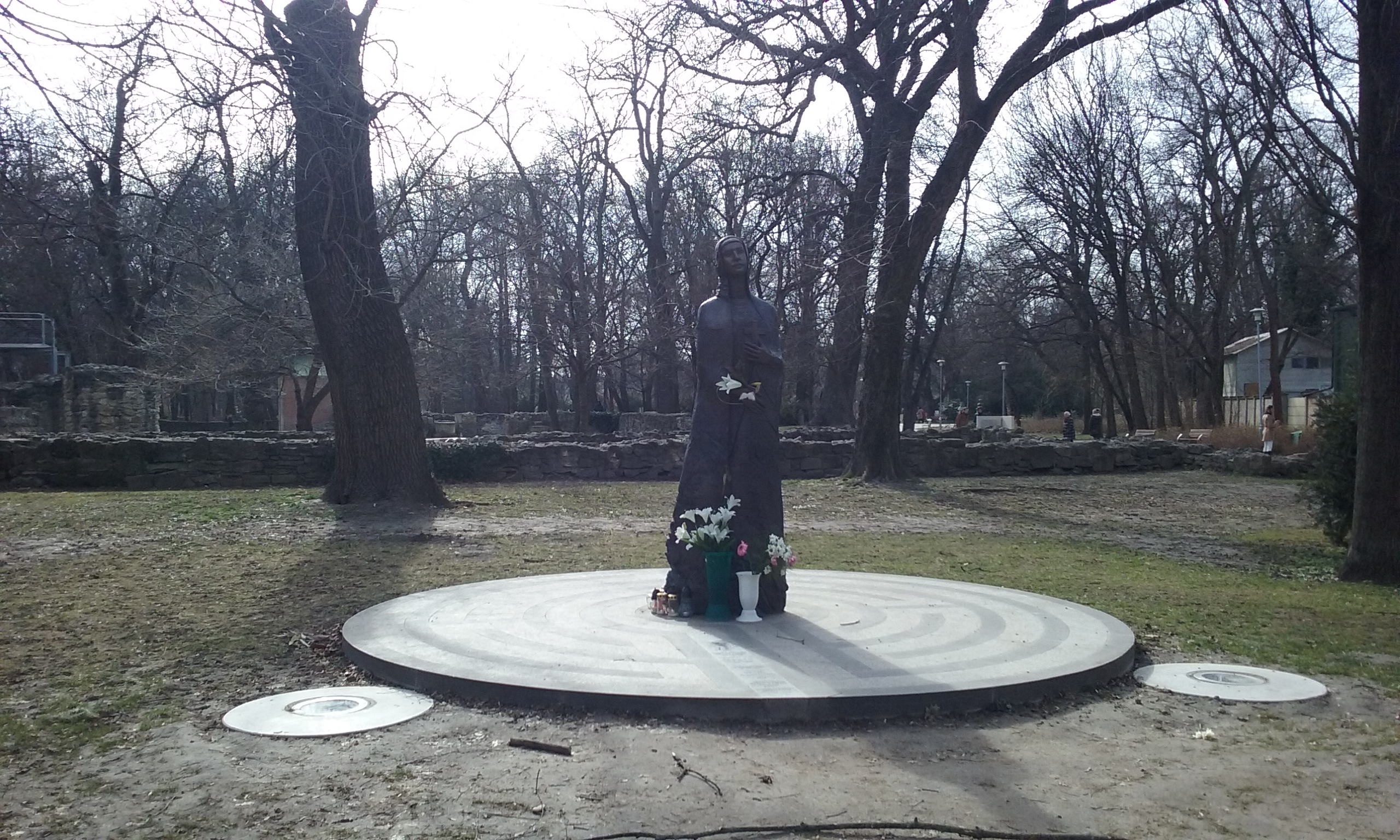 Statue of Saint Margaret of Hungary on Margaret Island, Budapest, Hungary, on 29 February 2020